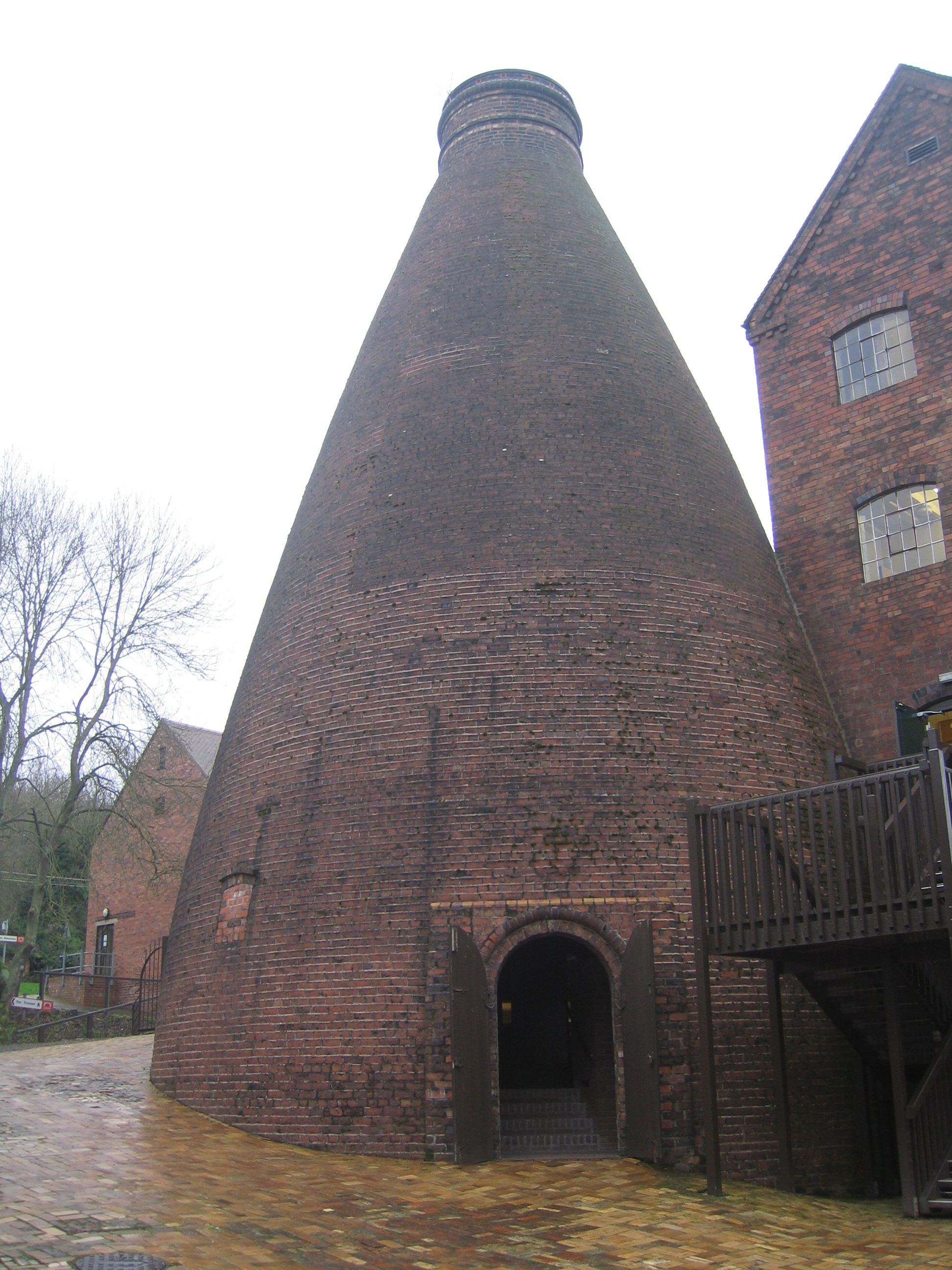 This image was taken by myself on 30th December 2006. It shows one of the large kilns at Coalport China Museum, part of the Ironbridge Gorge Museum Trust.